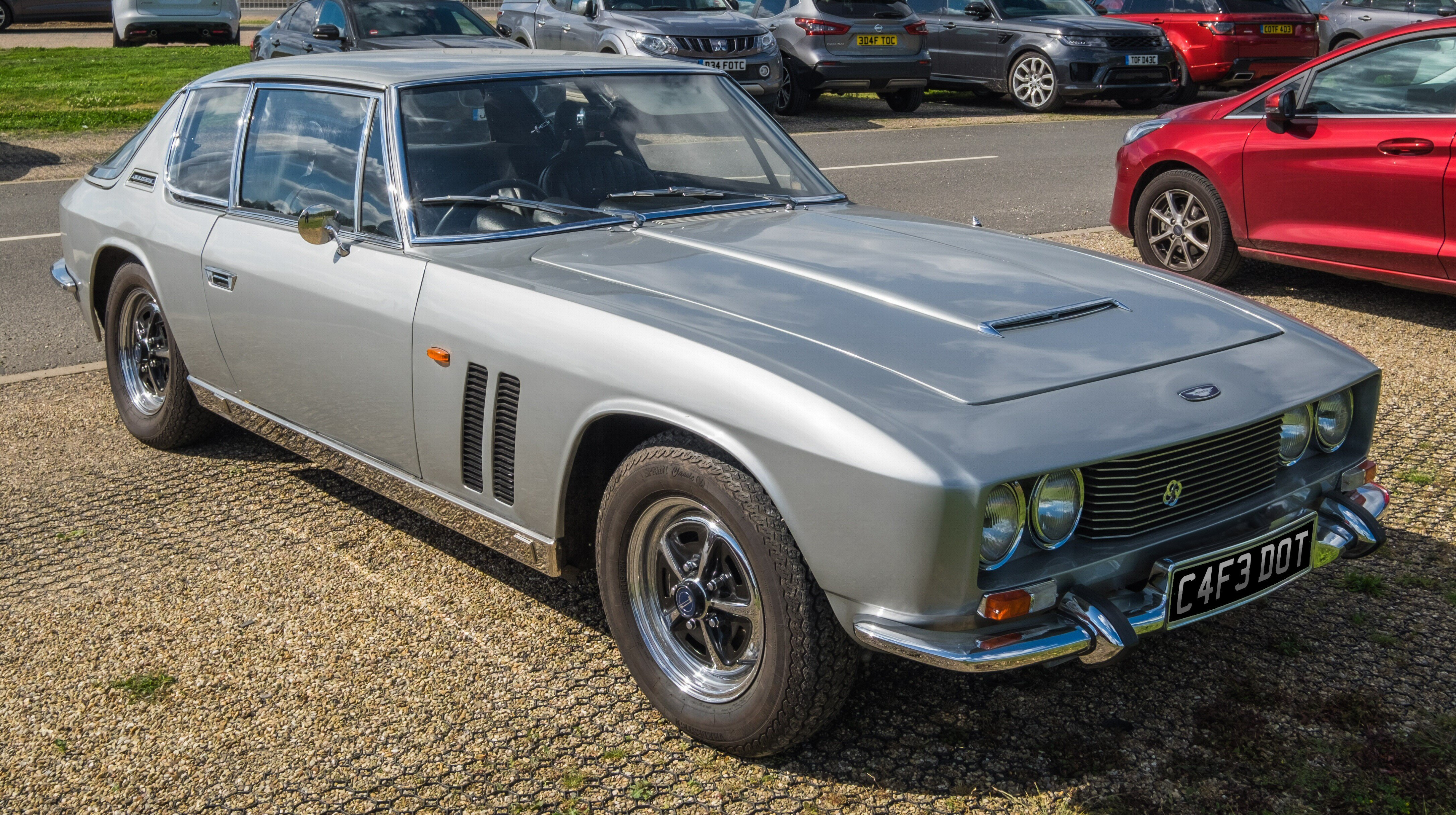 A 1968 Jensen FF. The FF was the first car (excluding off-roaders) to feature four-wheel drive and anti-lock braking.